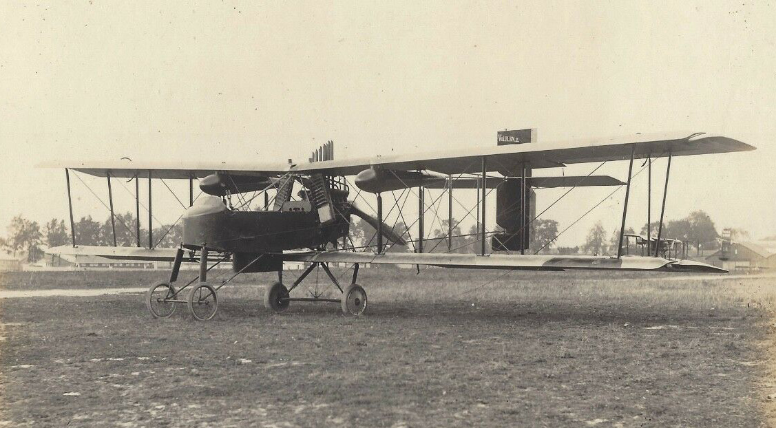 Voisin XI single-engine pusher bomber